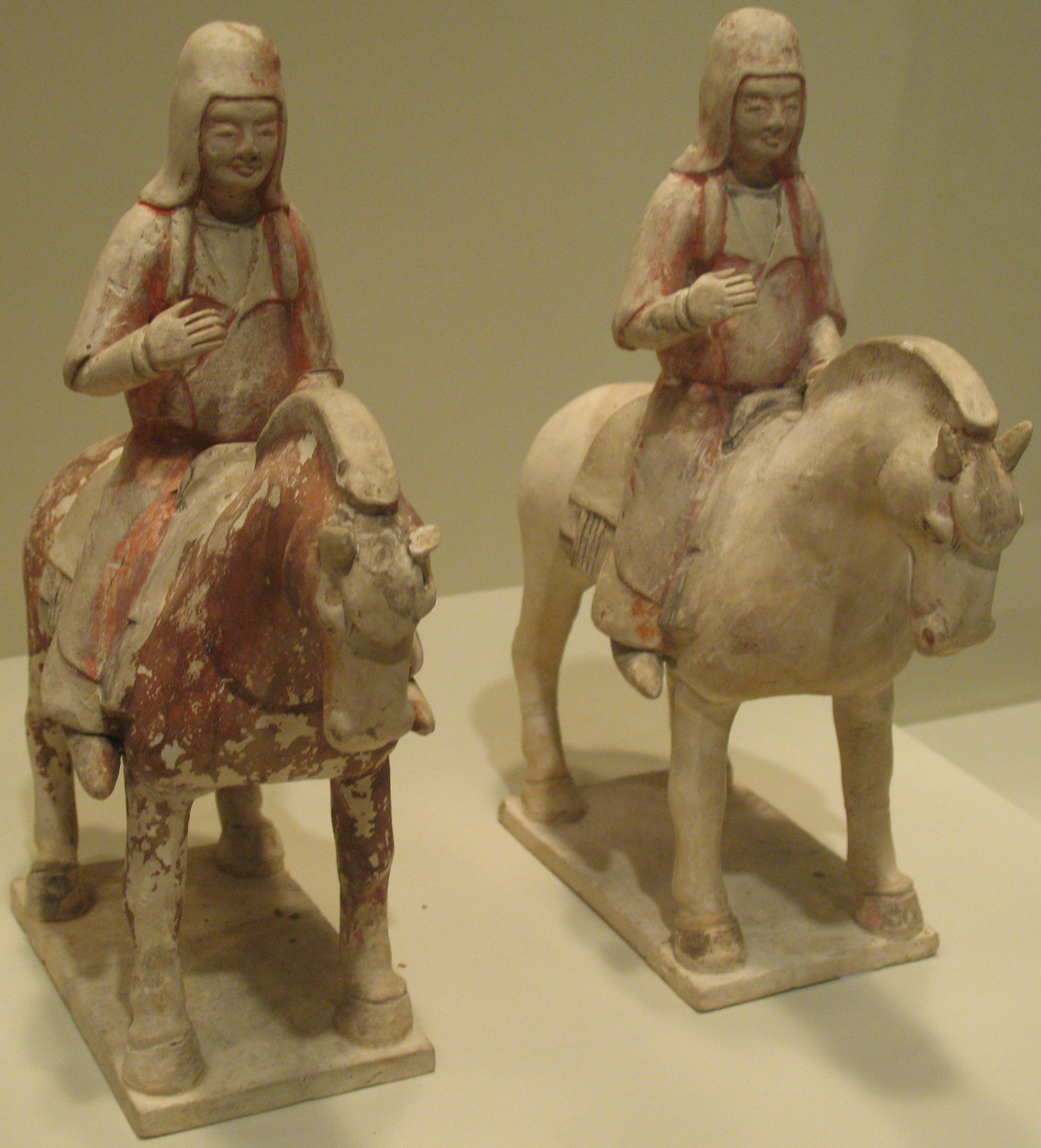 Pair of Mounted Horsemen; China, Tang Dynasty (a.D. 618-907), 7th century; Brooklyn Museum, New York, N.Y., USA